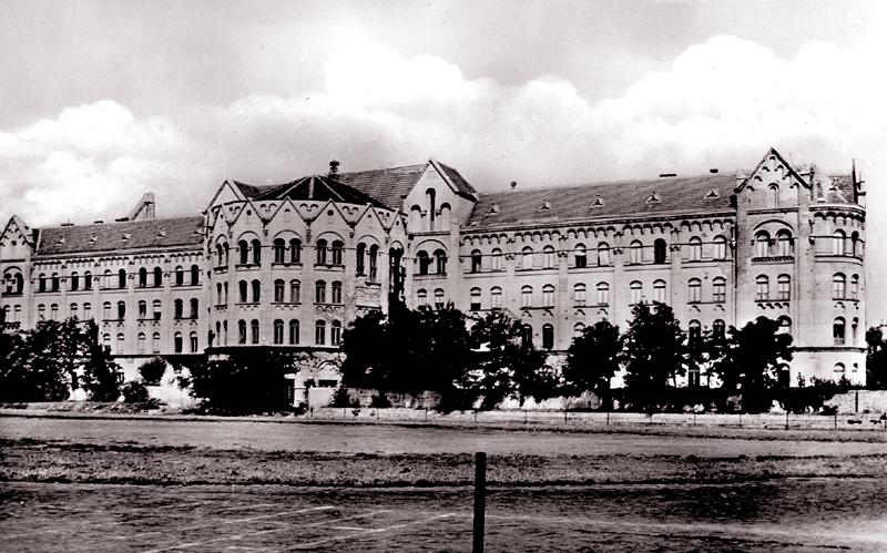 University of Szeged Faculty of Arts